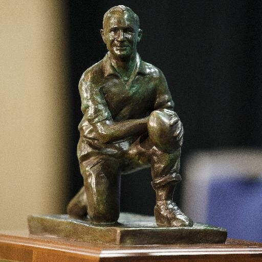 Picture of Dodd Trophy